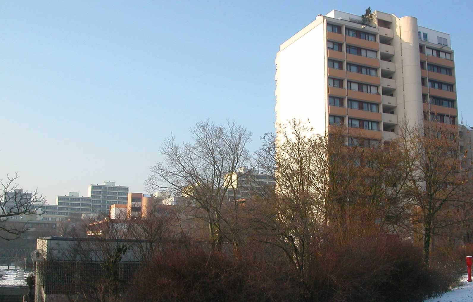 Mannheim Neighbourhood Herzogenried